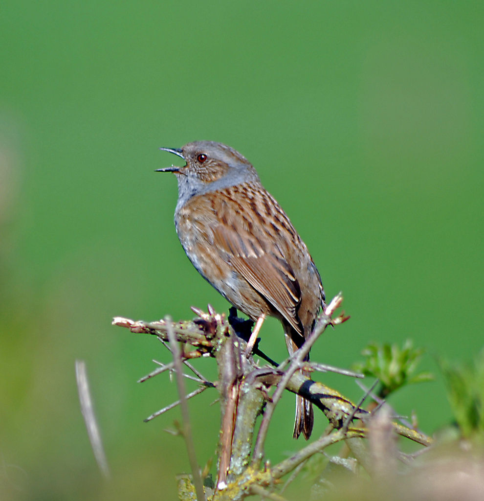 On a recent ramble around Cadbury Castle we discovered this Dunnock near the car park. We have a nesting pair in our garden but rarely get the opportunity to photograph it.